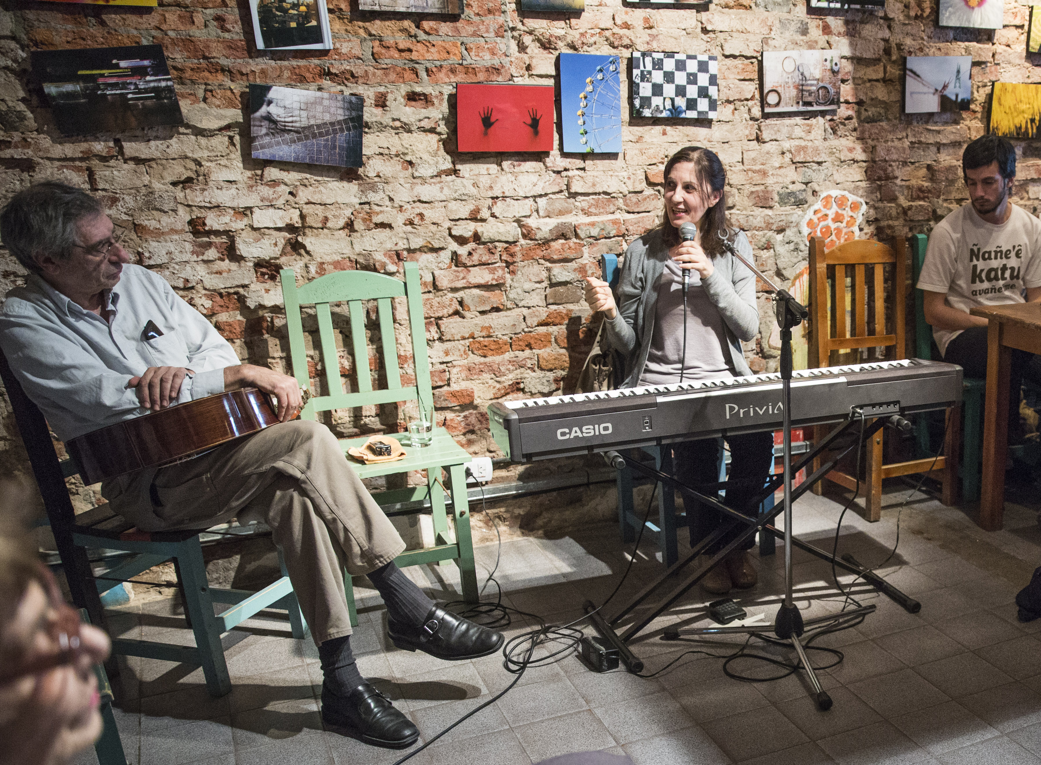 La pianista Lilián Saba y el guitarrista Claudio Espector en la ciudad de Resistencia (provincia del Chaco), el 27 de agosto de 2015.